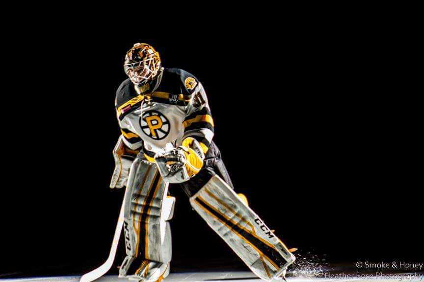 Zane McIntyre during the 2016 Calder Cup Playoffs with the Providence Bruins.